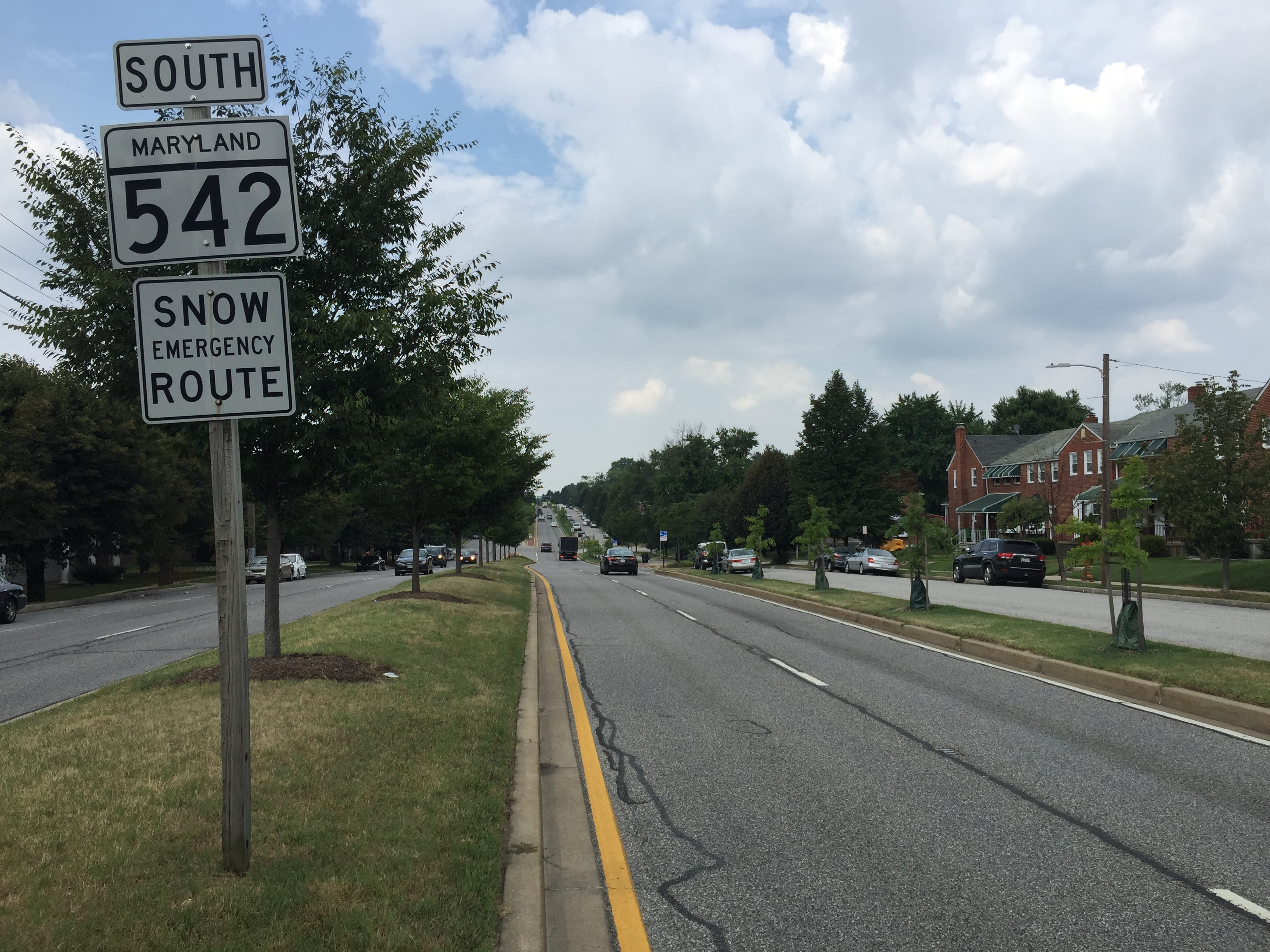 View south along Maryland State Route 542 (Loch Raven Boulevard) at Thetford Road in Towson, Baltimore County, Maryland